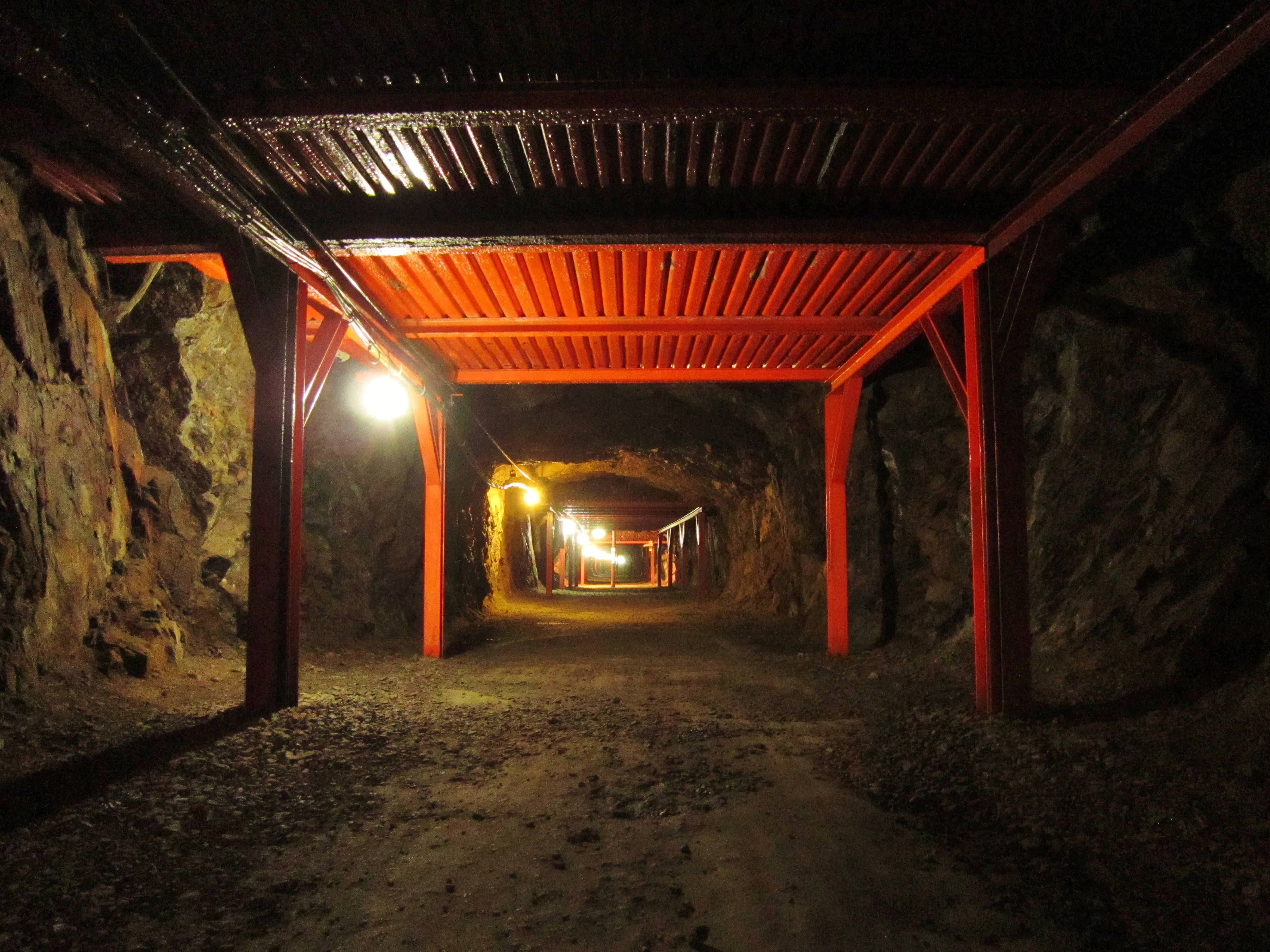 Matsushiro Underground Imperial Headquarters.